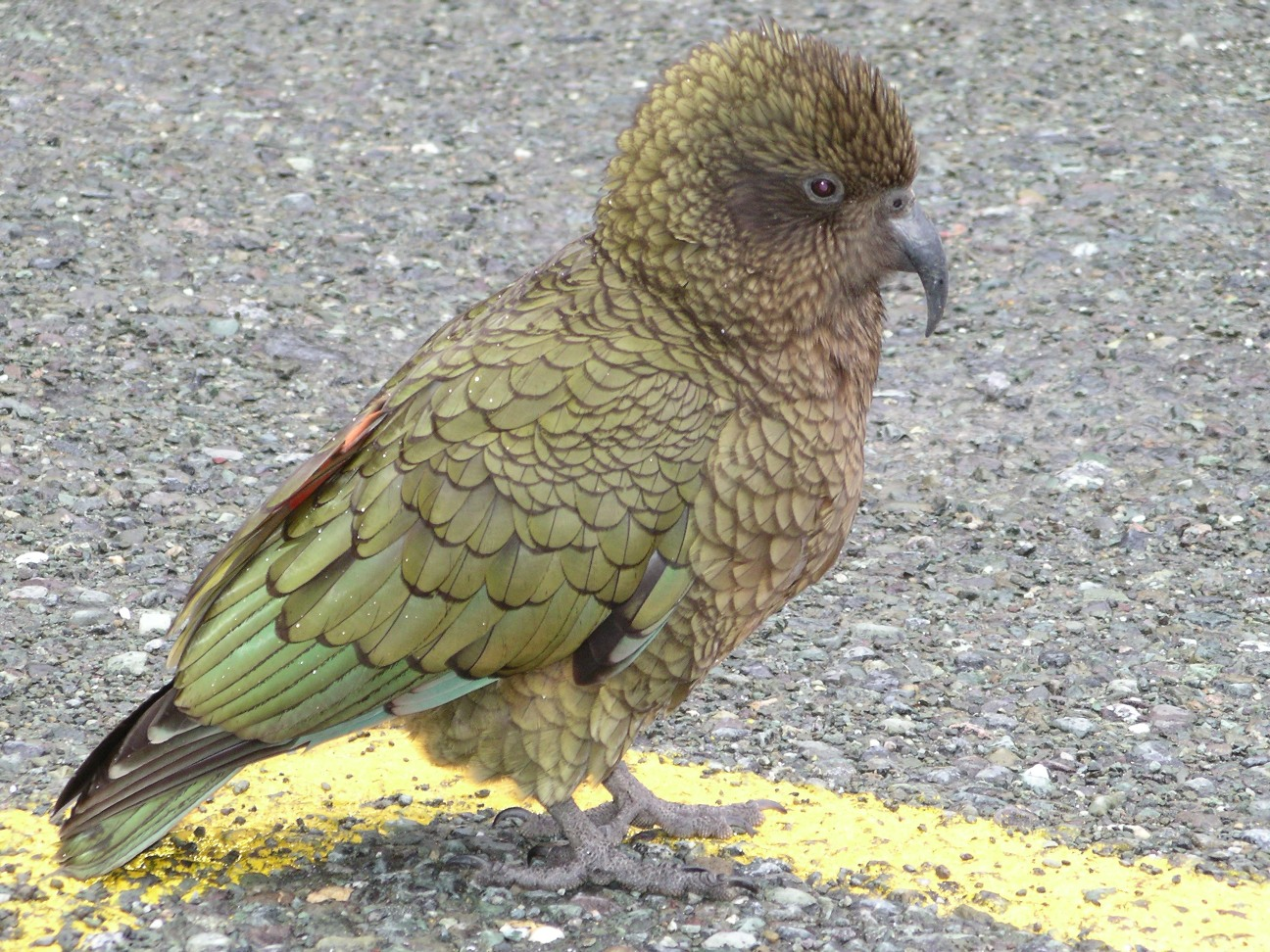 Male Kea (Nestor notabilis) on road to Milford Sound, New Zealand